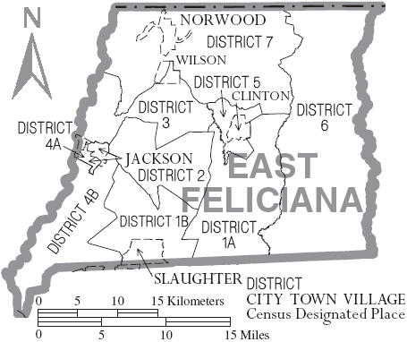 Map of East Feliciana Parish, Louisiana, United States with municipal and district boundaries